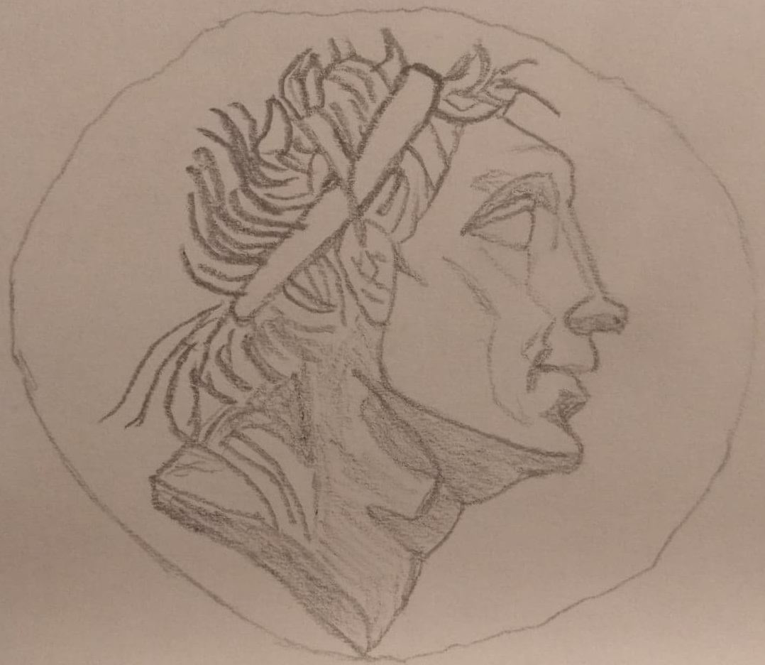 Drawing based on ancient coin